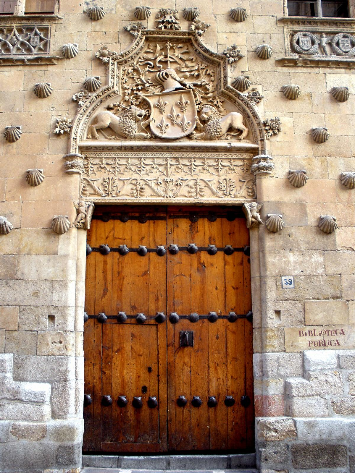 Casa de las Conchas (Salamanca)